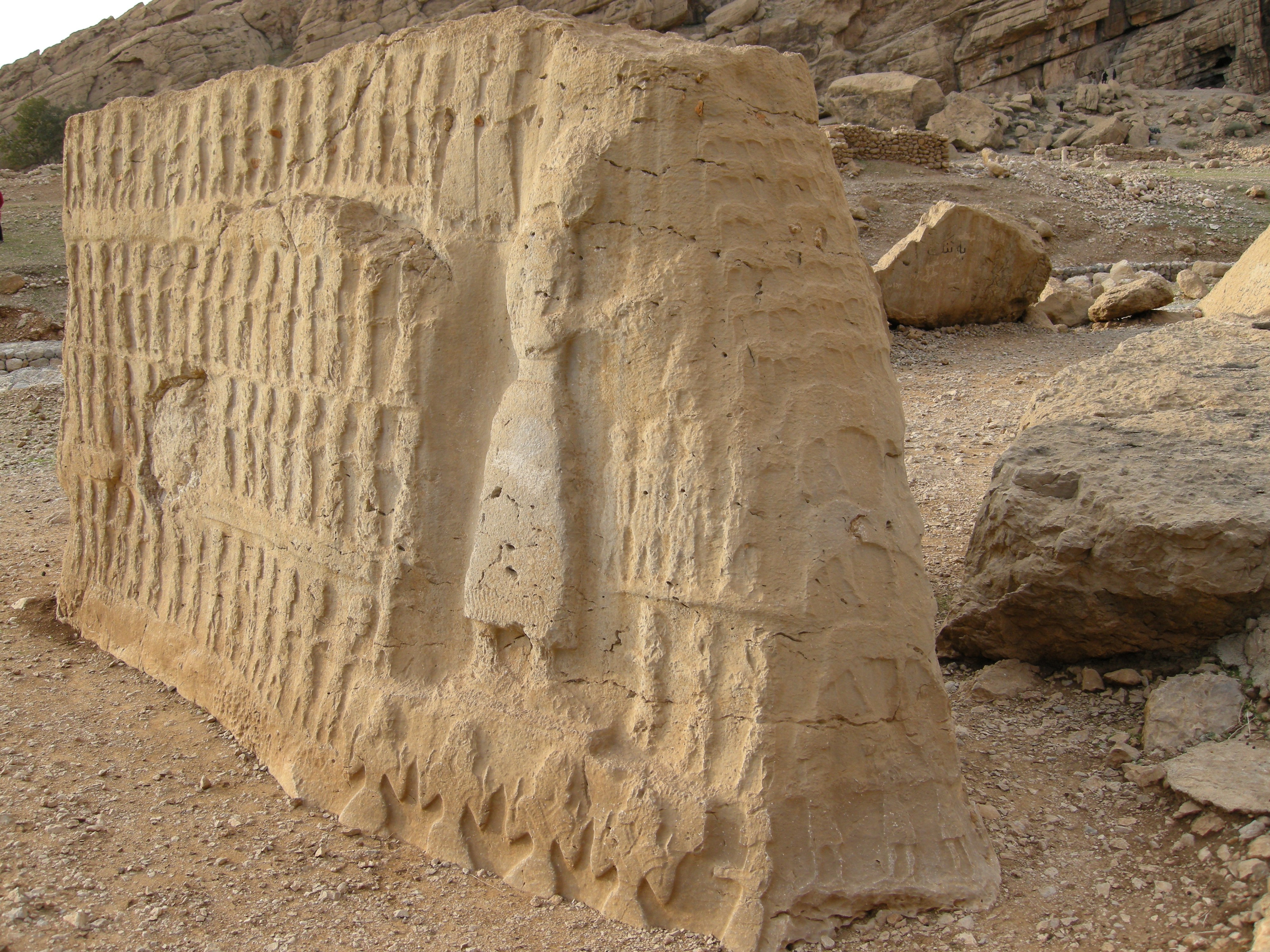 Photograph of southern and eastern faces of Kul-e Farah III